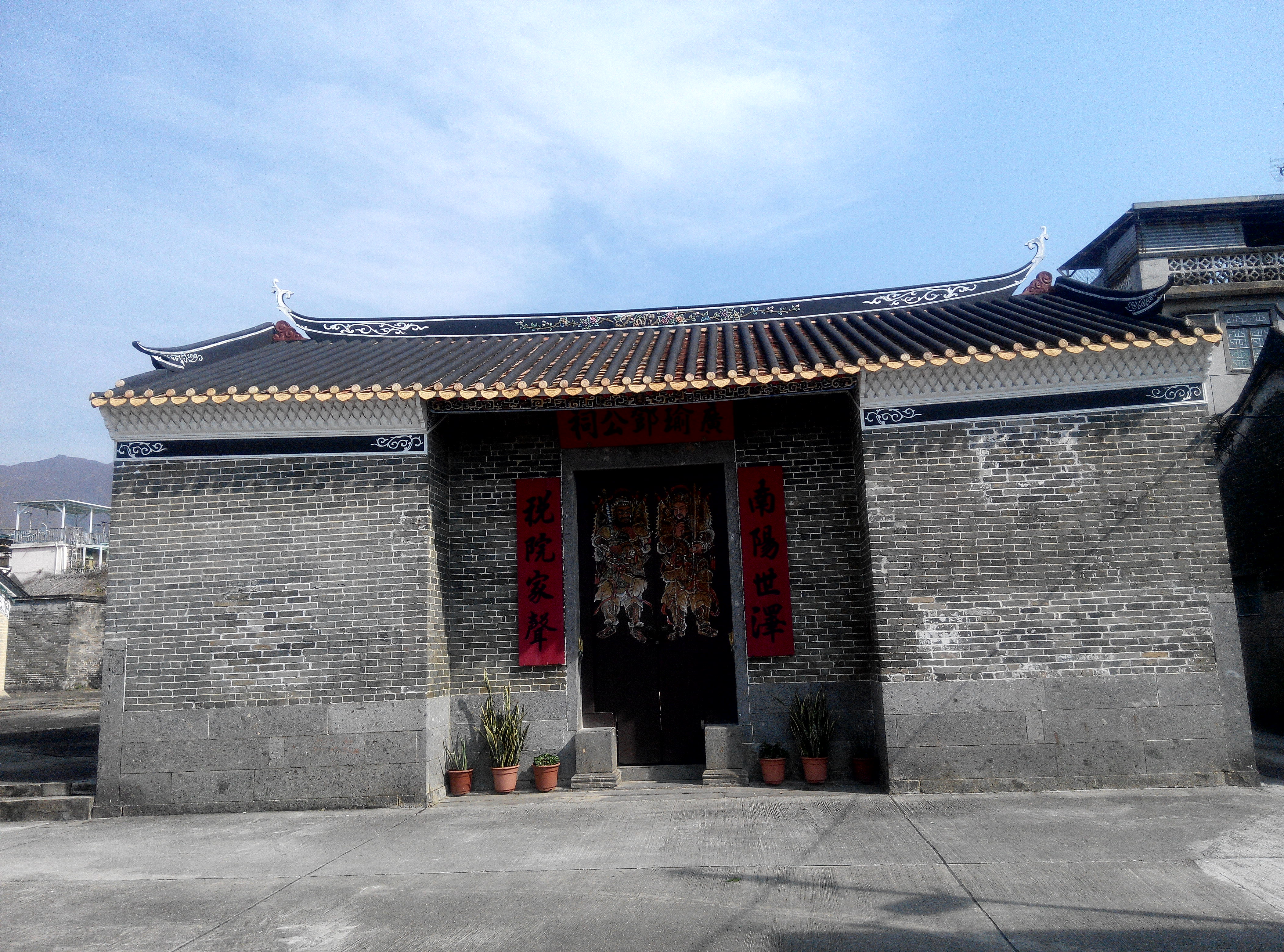 Kam Tin, Tang Kwong Yu Ancestral Hall